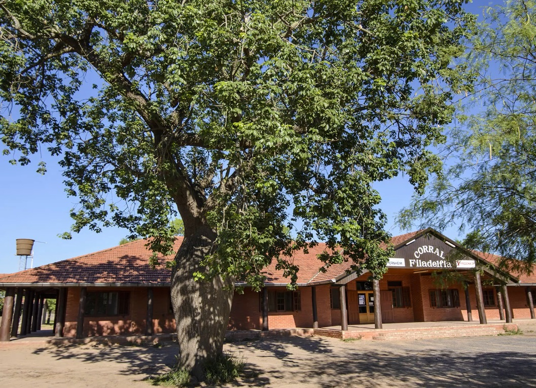 A typical chaco tree with a building